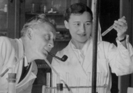 Albert Szent-Györgyi and Ilona Banga in laboratory